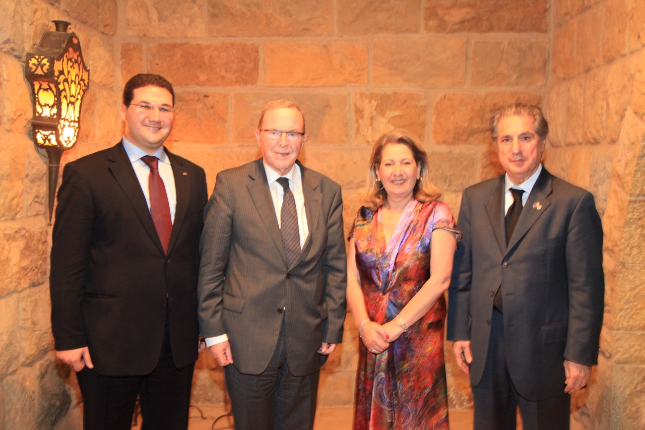 EPP in Lebanon, alongside Nadim and Amin Gemayel.